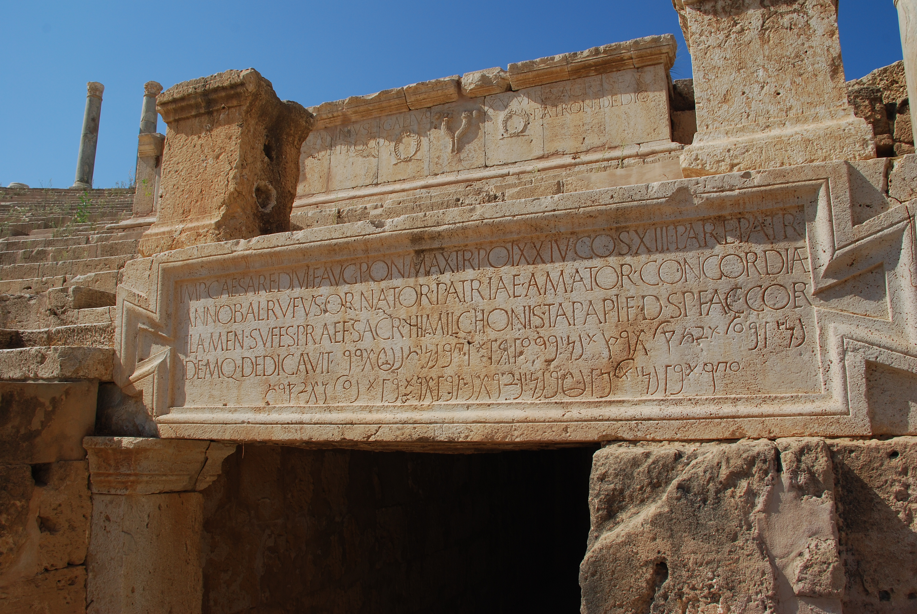 This is the picture of one of the gates at the theatre at Leptis Magna/Libya